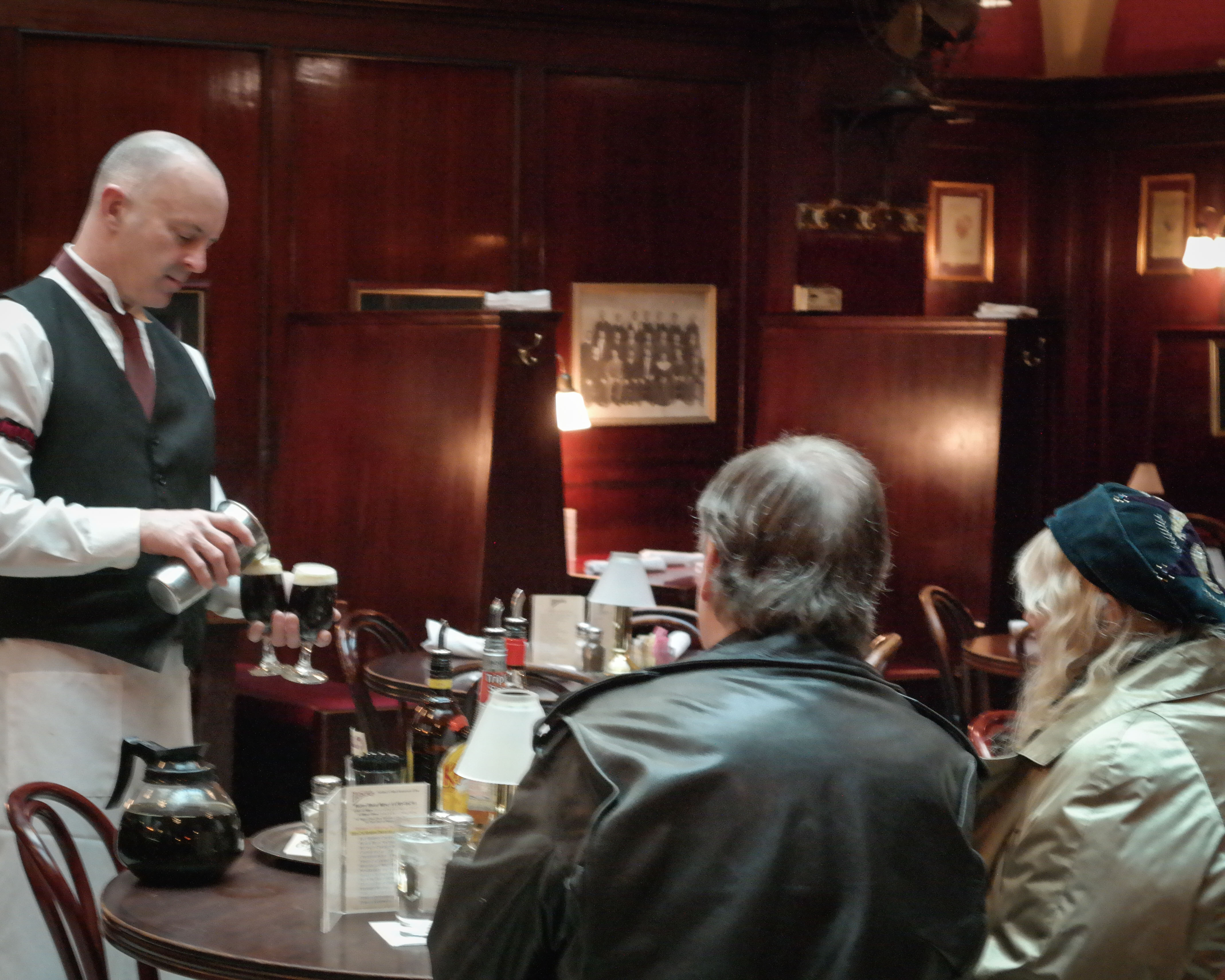 A highly skilled bartender at Hubers Café, Portland's oldest restaurant, prepares the famous Spanish coffee.